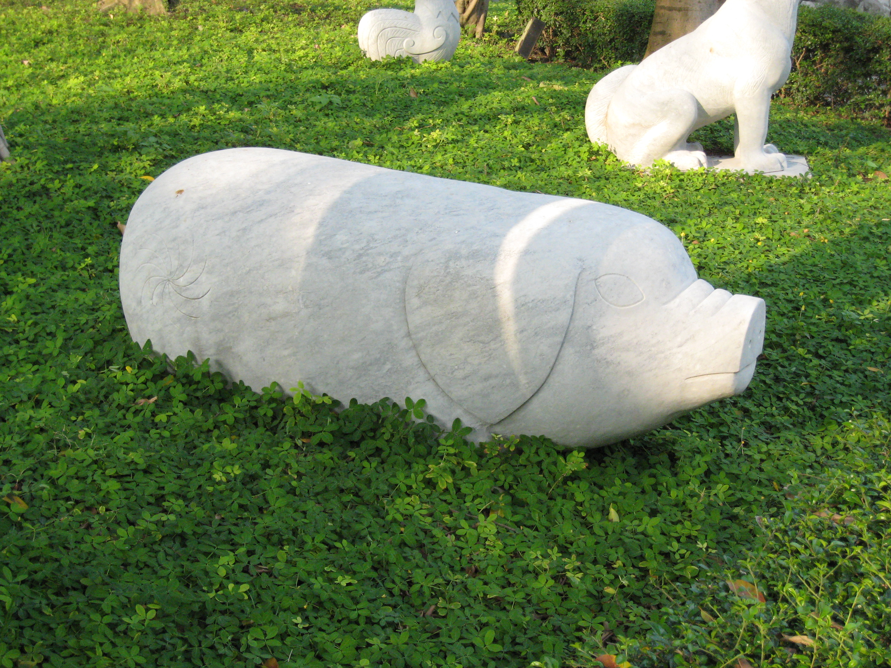 The Pig statue is one of the 12 Chinese zodiac portrayed in the Kowloon Walled City Park in Kowloon City, Hong Kong.